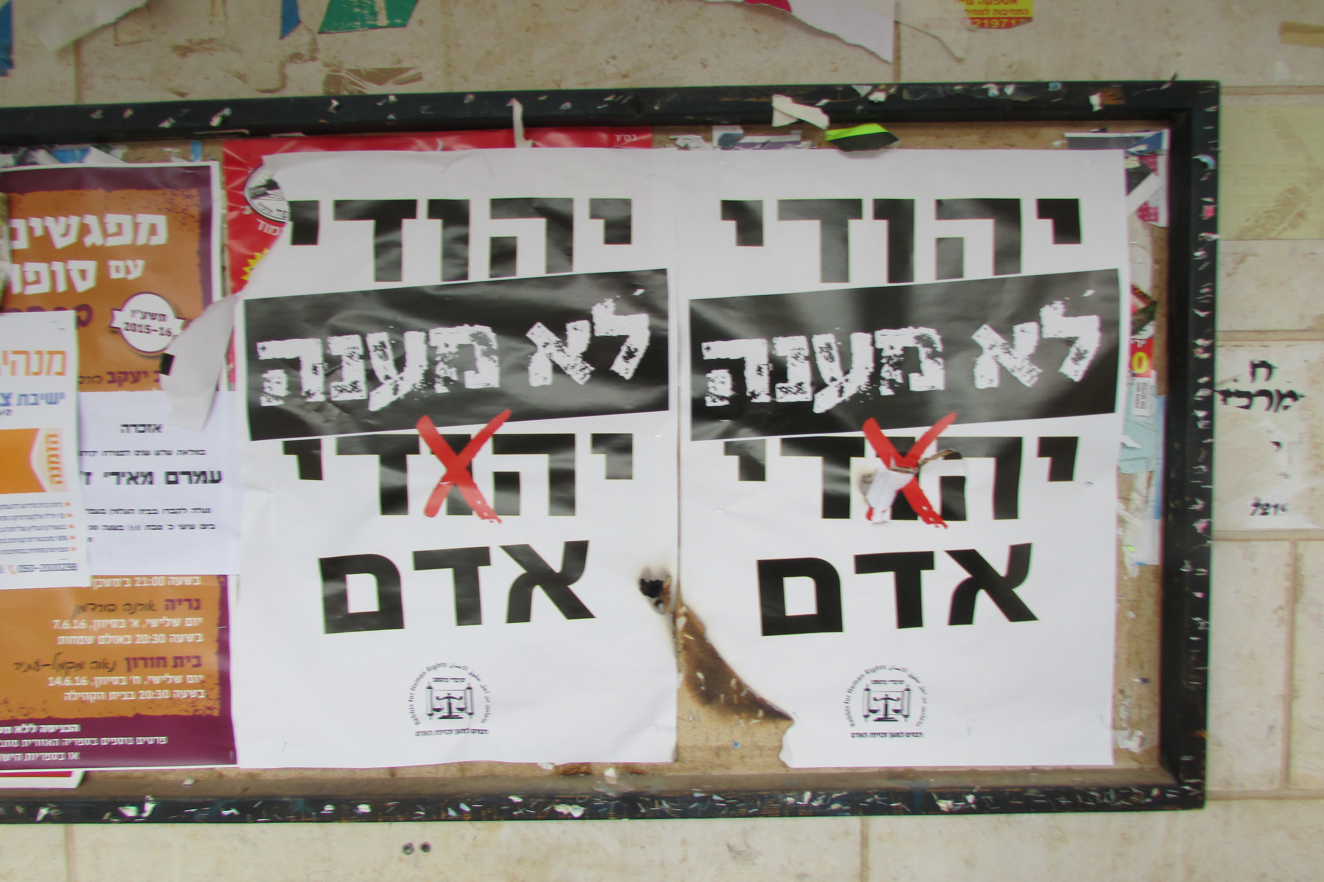 Signs against torture in Israel. It says in Hebrew: A Jew does not trture a (Jew) person.